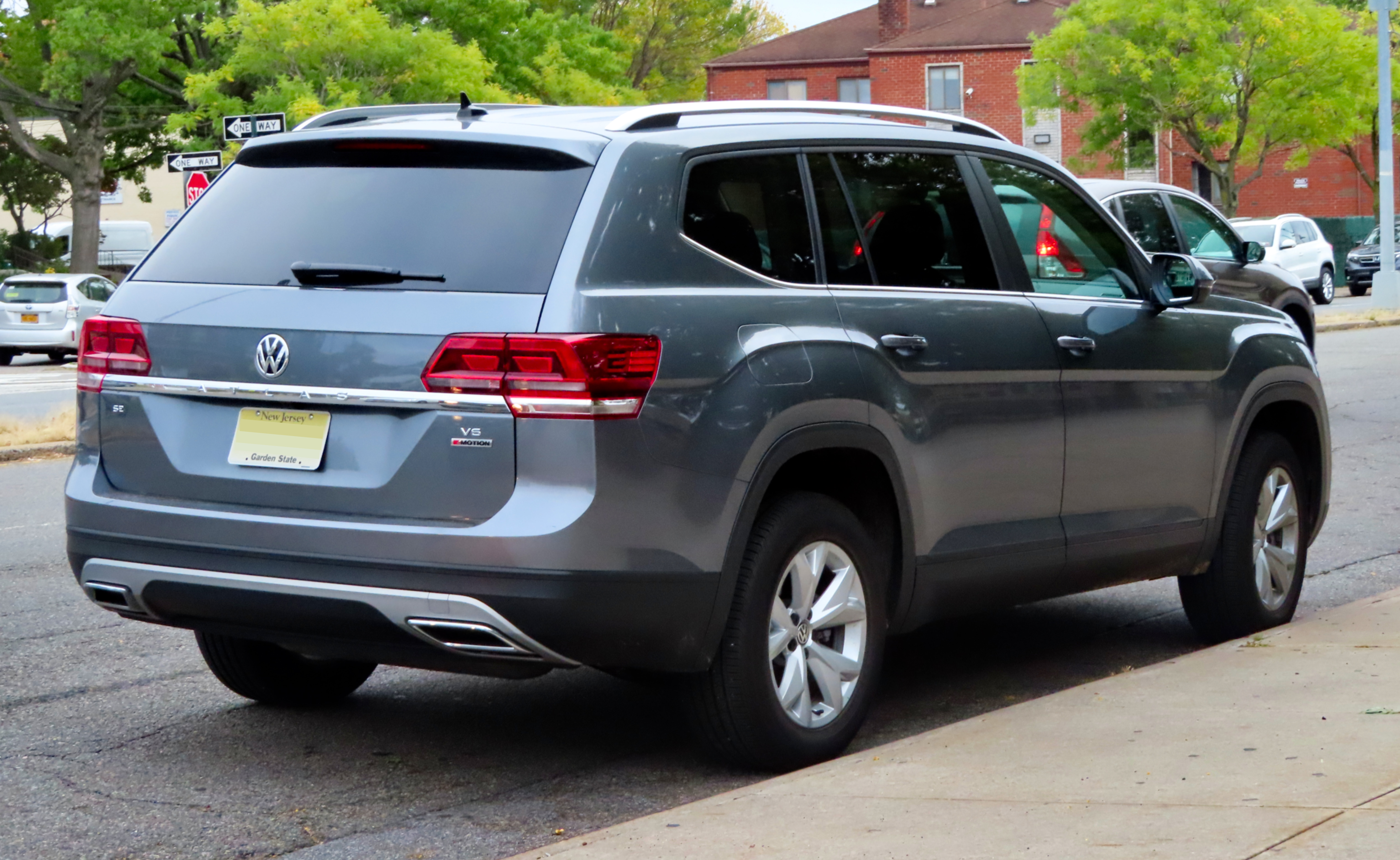 A 2019 Volkswagen Atlas SE photographed at Francis Lewis High School, Fresh Meadows, Queens, New York, USA